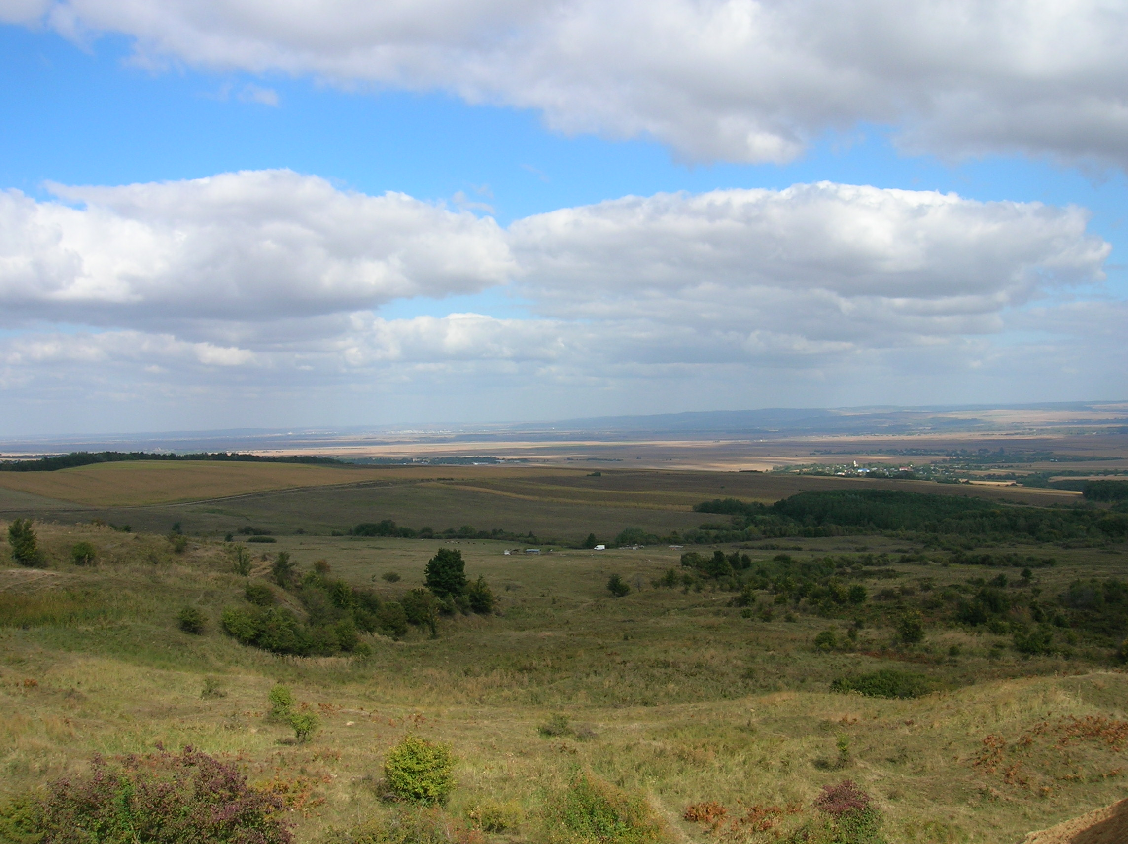 Runc Hill (Subcarpathian area of Modavia), Bacău and Neamț counties, România